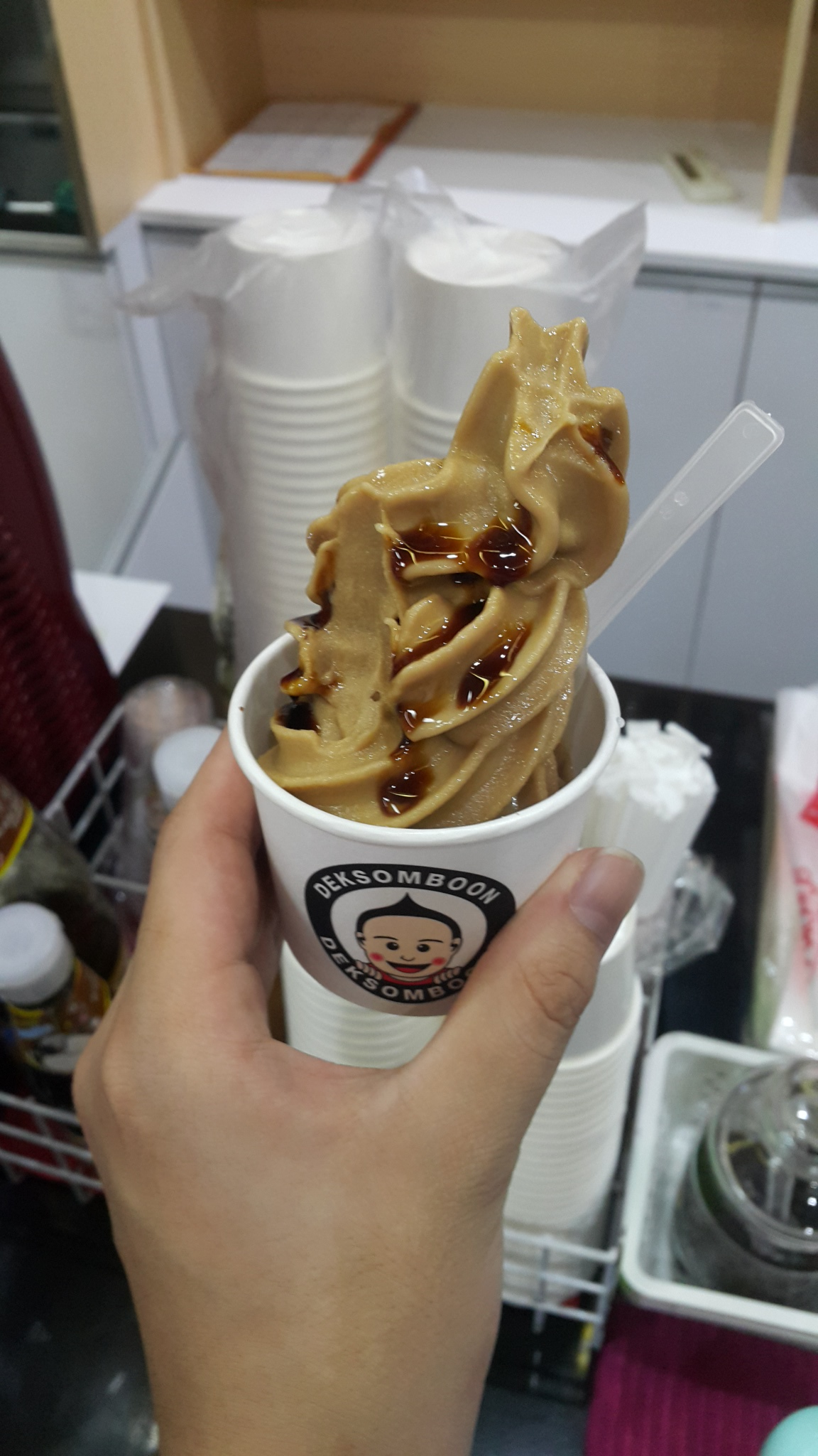 Softcream topped with Thai see-iw dum (black sweet soy sauce) served at Yaowarat, Bangkok, Thailand